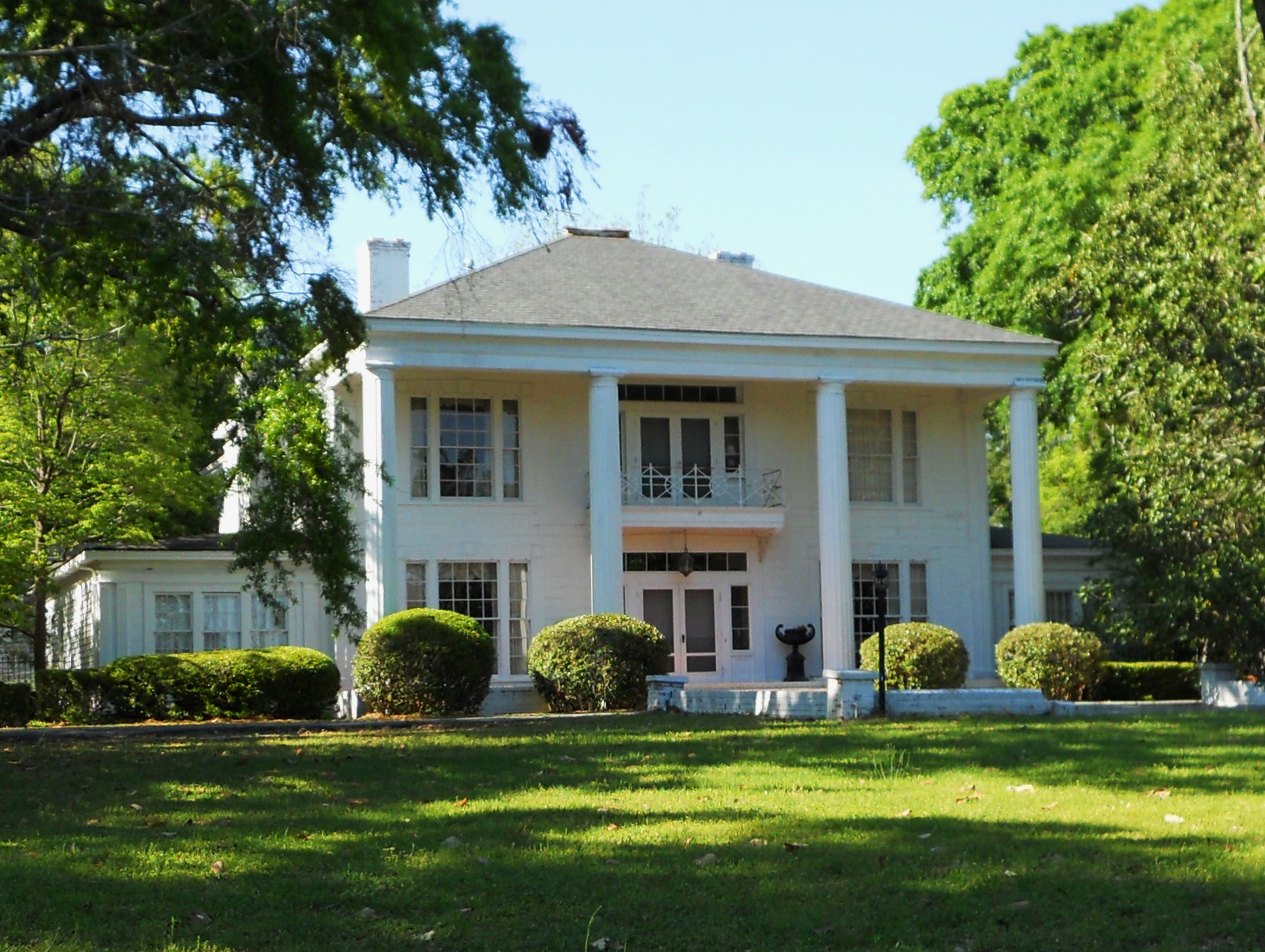 This is a photograph of the Bass-Perry House located in Seale, AL. It is listed on the National Register of Historic Places.